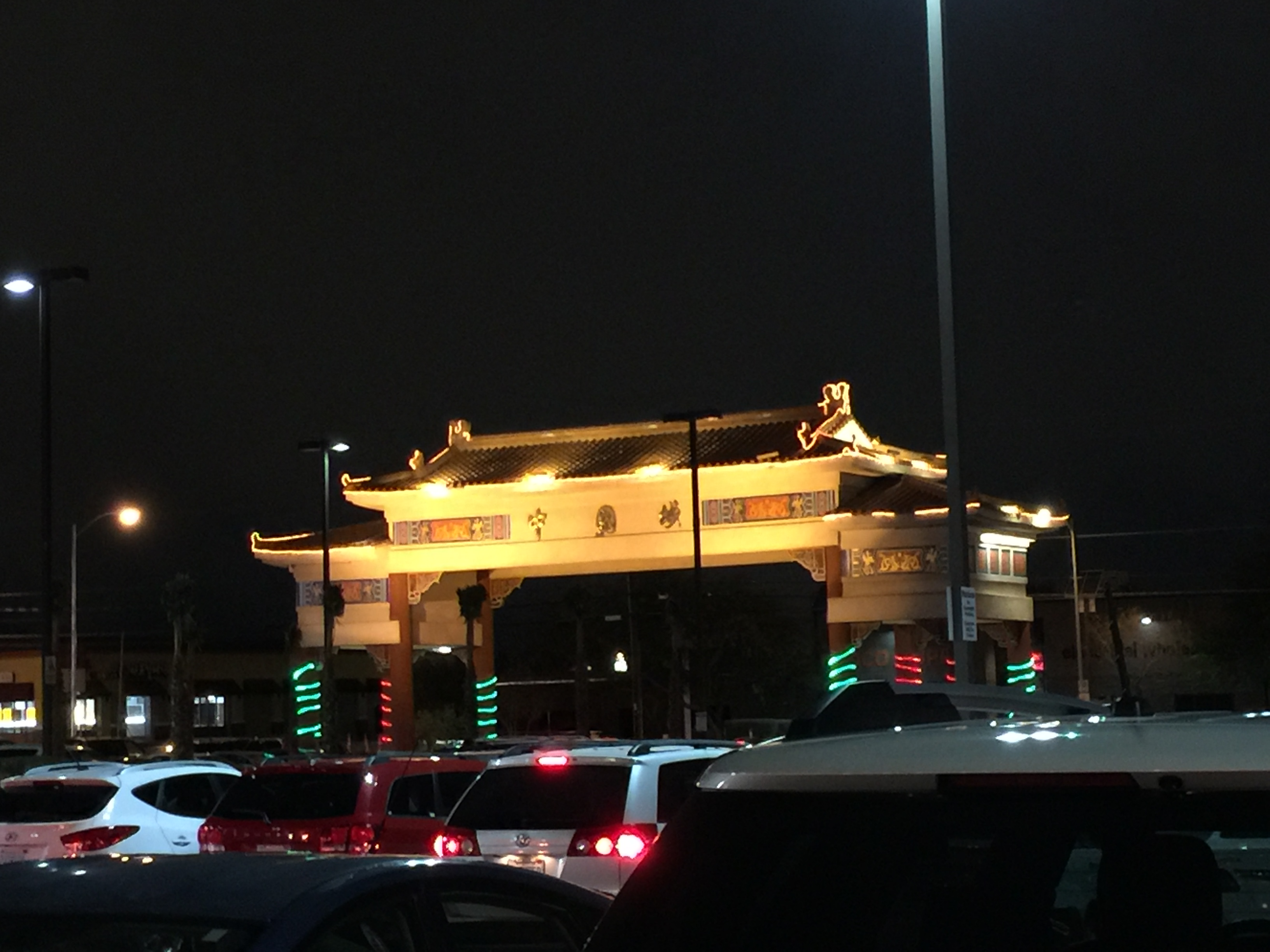 Las Vegas paifang from my camera.